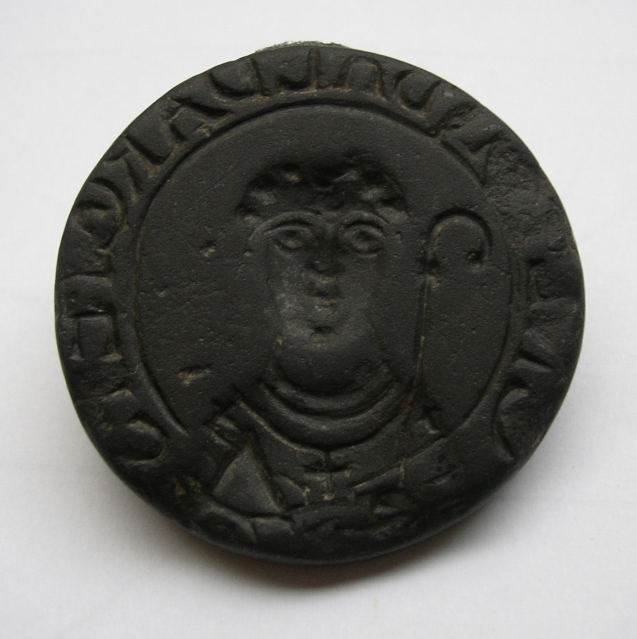 Seal of archbishop Erkanbald of Mainz, Germany (1011-1021). Slate. Focke-Museum Bremen and Museum für Hamburgische Geschichte.